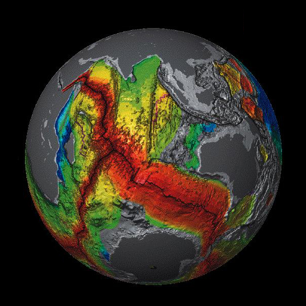 Age of oceanic crust. (See also Image:Earth seafloor crust age 1996.gif) Source: Excerpted from ; original upload in english wikipedia 31 March 2005 by User:SEWilco